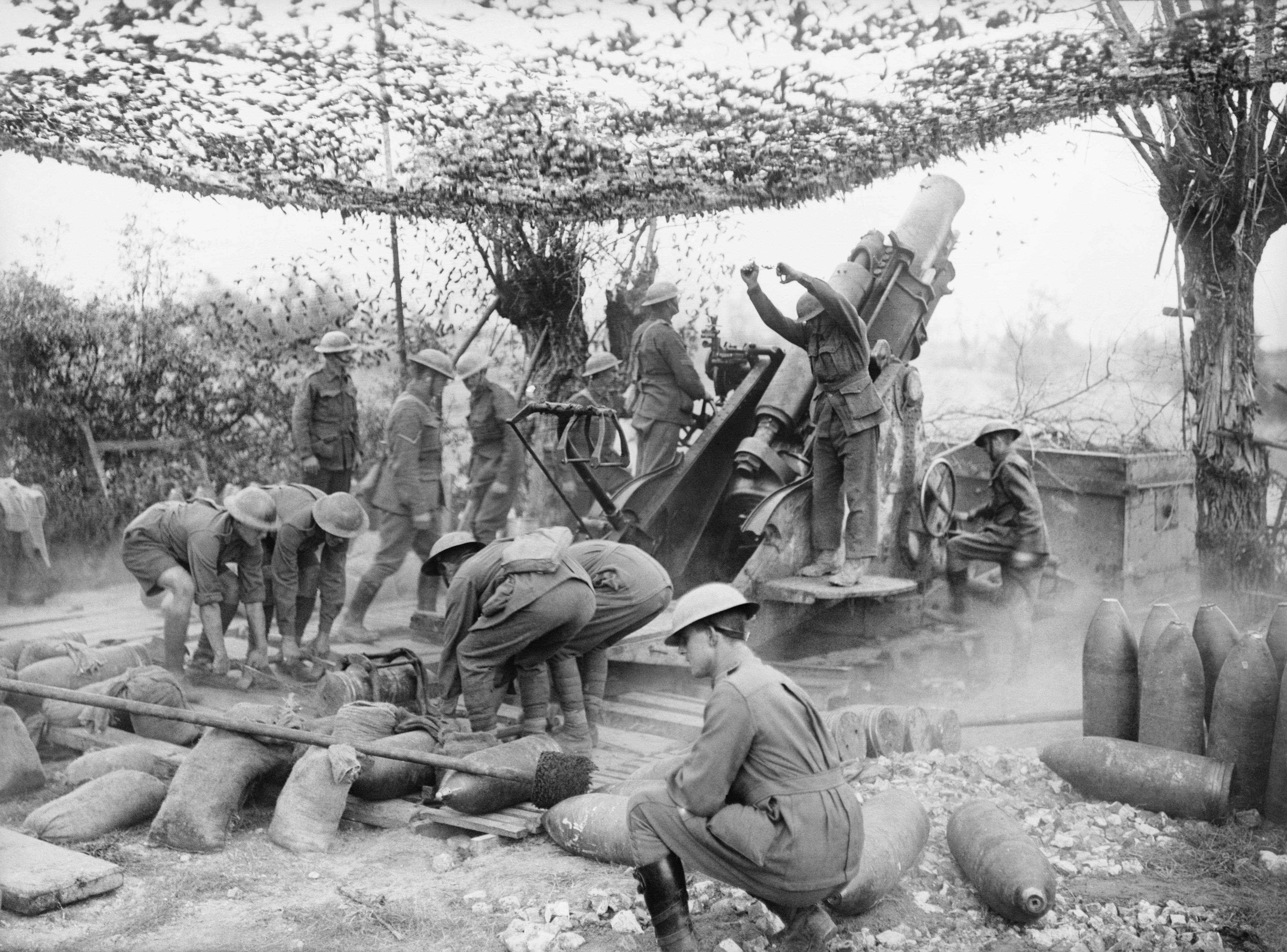 THE THIRD BATTLE OF YPRES (PASSCHENDAELE) 31 JULY - 10 NOVEMBER 1917 Description: The 55th Australian Siege Battery in action with 9.2 inch howitzer Mk I near Voormezeele. Camouflage netting screens the emplacement. Identified, background, left to right (standing): 856 Staff Sergeant F G Dobson MM 199 Bombardier W Carlin DCM 814 Gunner (Gnr) H C Johns 362 Gnr W Fotheringham 695 Gnr R H Parkes 700 Gnr T Garry 699 Gnr C W D McRae Foreground, left to right: 552 Gnr J V Lawrence 777 Gnr H J Kitching (beside Lawrence) 31687 Gnr J D Boydell 172 Sergeant L Franks (beside Boydell) 196 Corporal G F Brown.